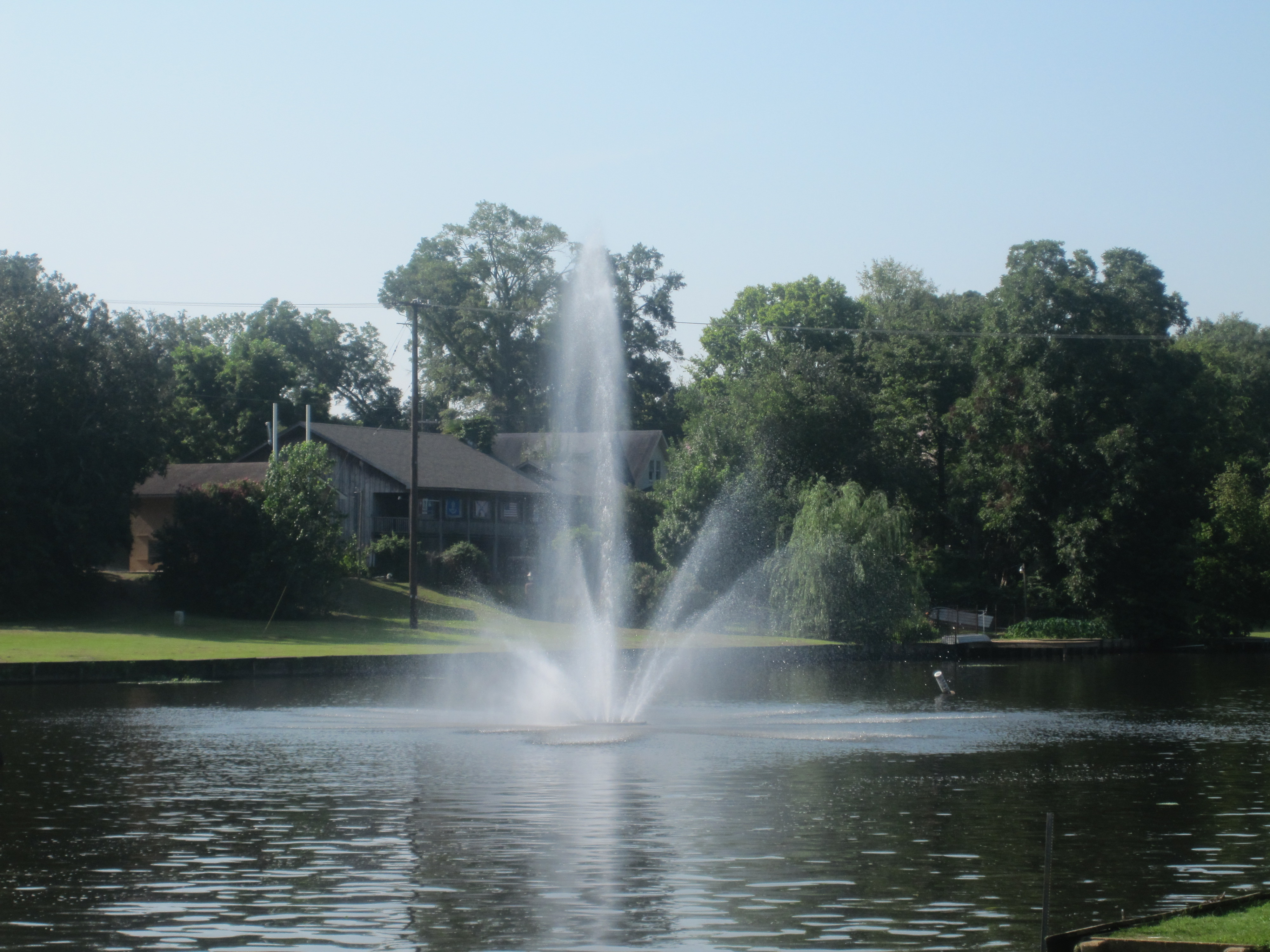 Fountain in Cane River Lake — in downtown Natchitoches, Louisiana.